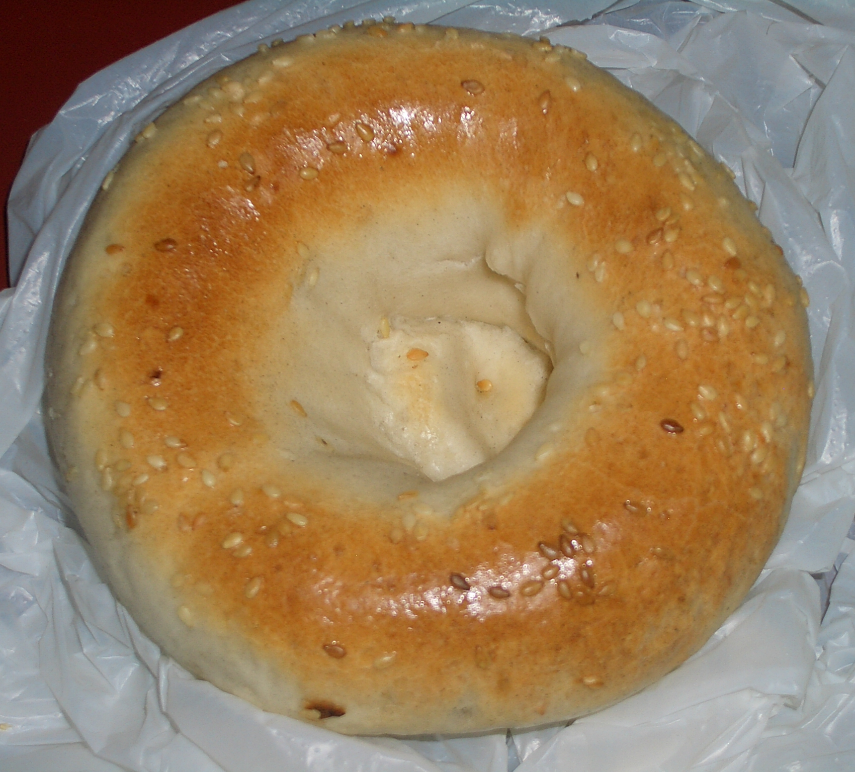 A pseudo-bagel from "Guangzhou Nur Bostani Muslim Restaurant", a halal eatery near Guangzhou's main mosque